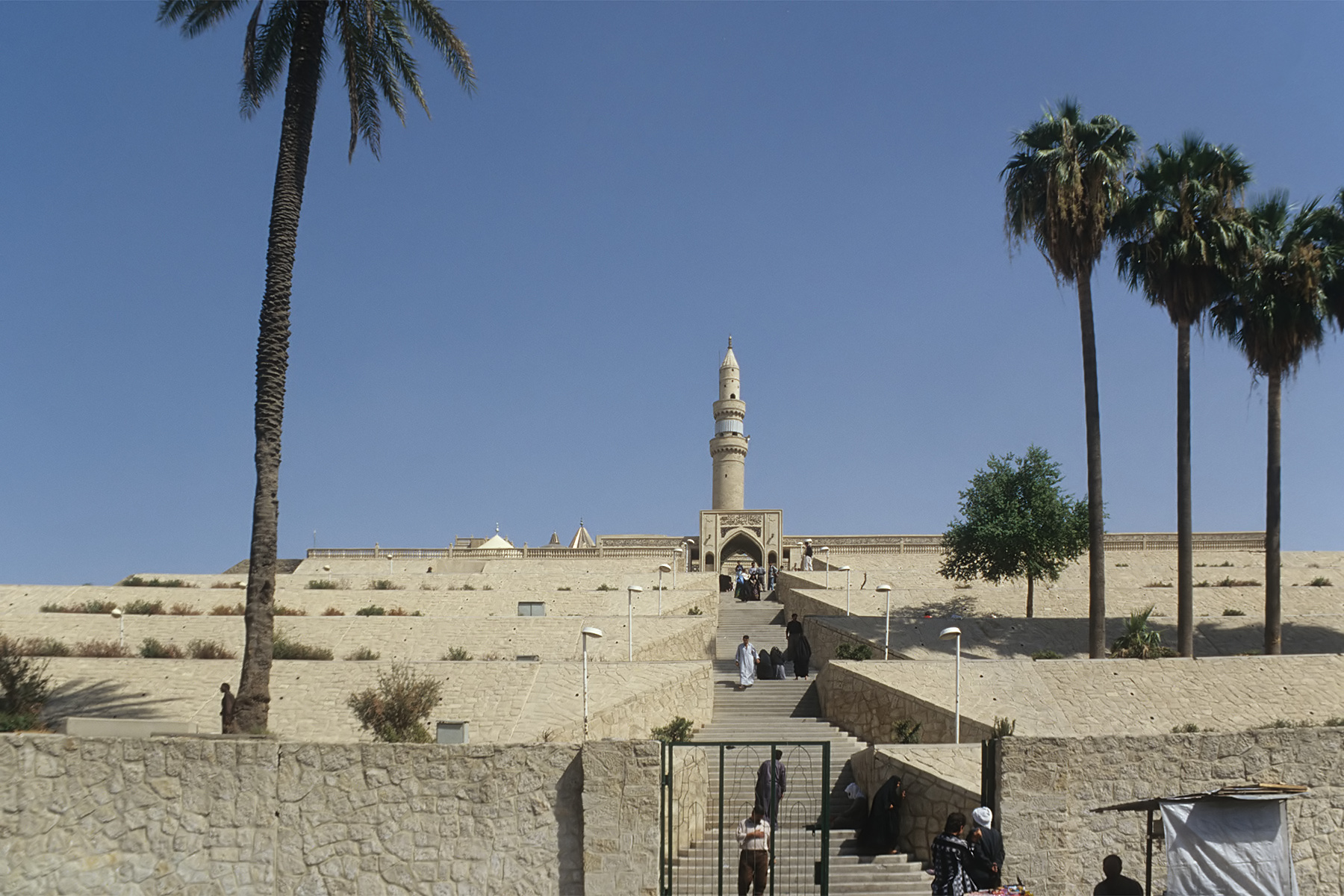 Outside the Mosque of the Prophet Yunus, Nineveh, Mosul